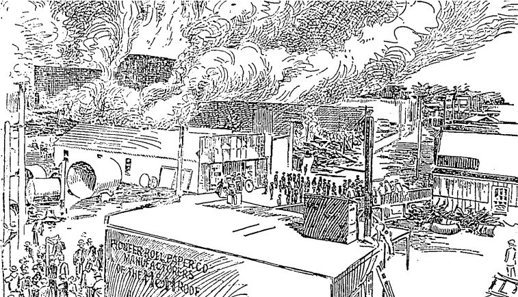 Sketch taken from a photograph of a destructive fire at the W.H. Perry lumber yard on Requena Street in Los Angeles, California, September 18, 1899, showing smoke and onlookers. William H. Perry Other information